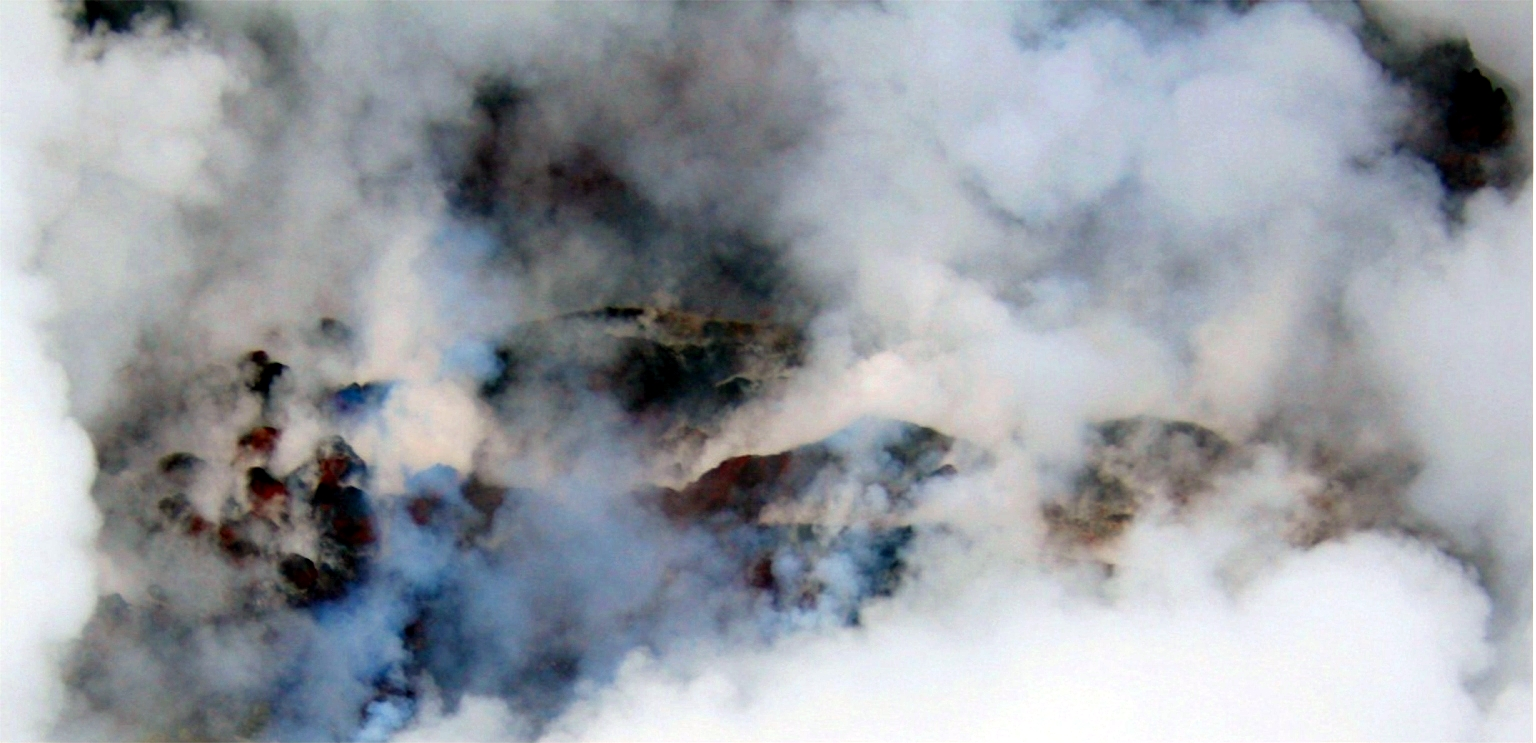 Pu`u `O`o crater at The Big Island of Hawai. The picture was taken from a helicopter.